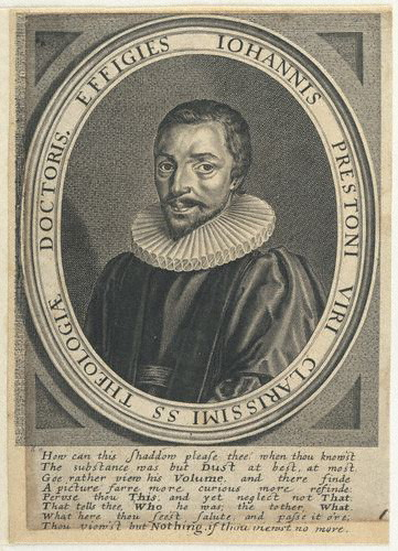 Portrait of John Preston (1587-1628)